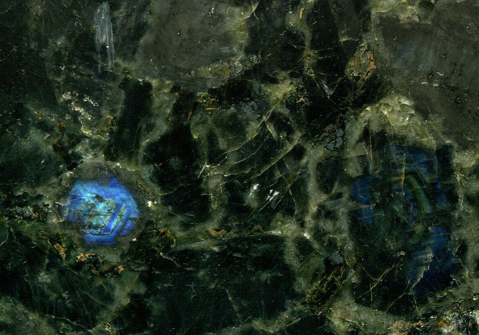 Volga Blue Granite - a dark, very coarsely-crystalline anorthosite with zoned plagioclase feldspar from Ukraine. This is from the Volodarsk-Volhynsky Intrusion in the southern Korosten Complex, a large igneous suite intruded through the Ukrainian Shield. The Volodarsk-Volynsky Intrusion dates to the late Paleoproterozoic (1.758-1.760 Ga). This material is quarried between the cities of Korosten and Zhitomir, central Zhitomir Province, northwestern Ukraine. Anorthosites are uncommon intrusive igneous rocks almost exclusively composed of Ca-rich plagioclase feldspar. There’s usually a blackish pyroxene component as well. Anorthosites having labradorite plagioclase feldspar will display a wonderfully colorful iridescent play of colors (labradorescence). This makes them desirable decorative stones.